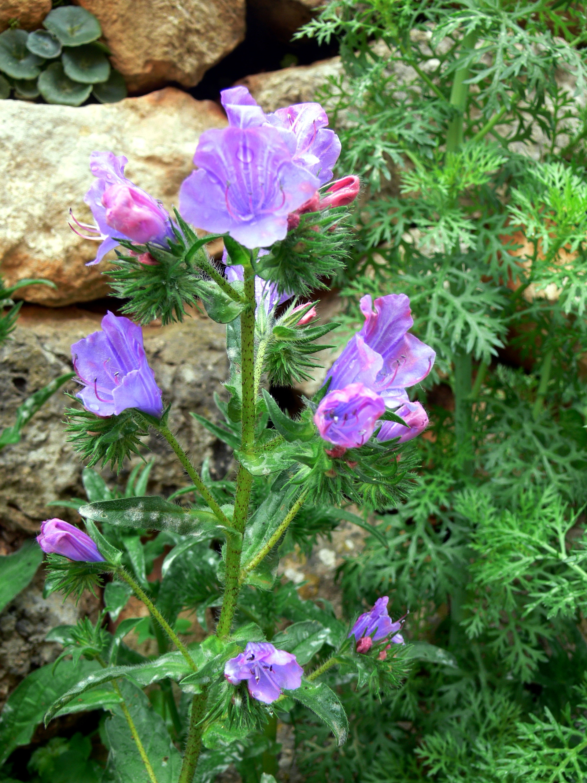 Aptera, Crete. Echium plantagineum (determined by user:RLJ) in the ruins of Aptera.